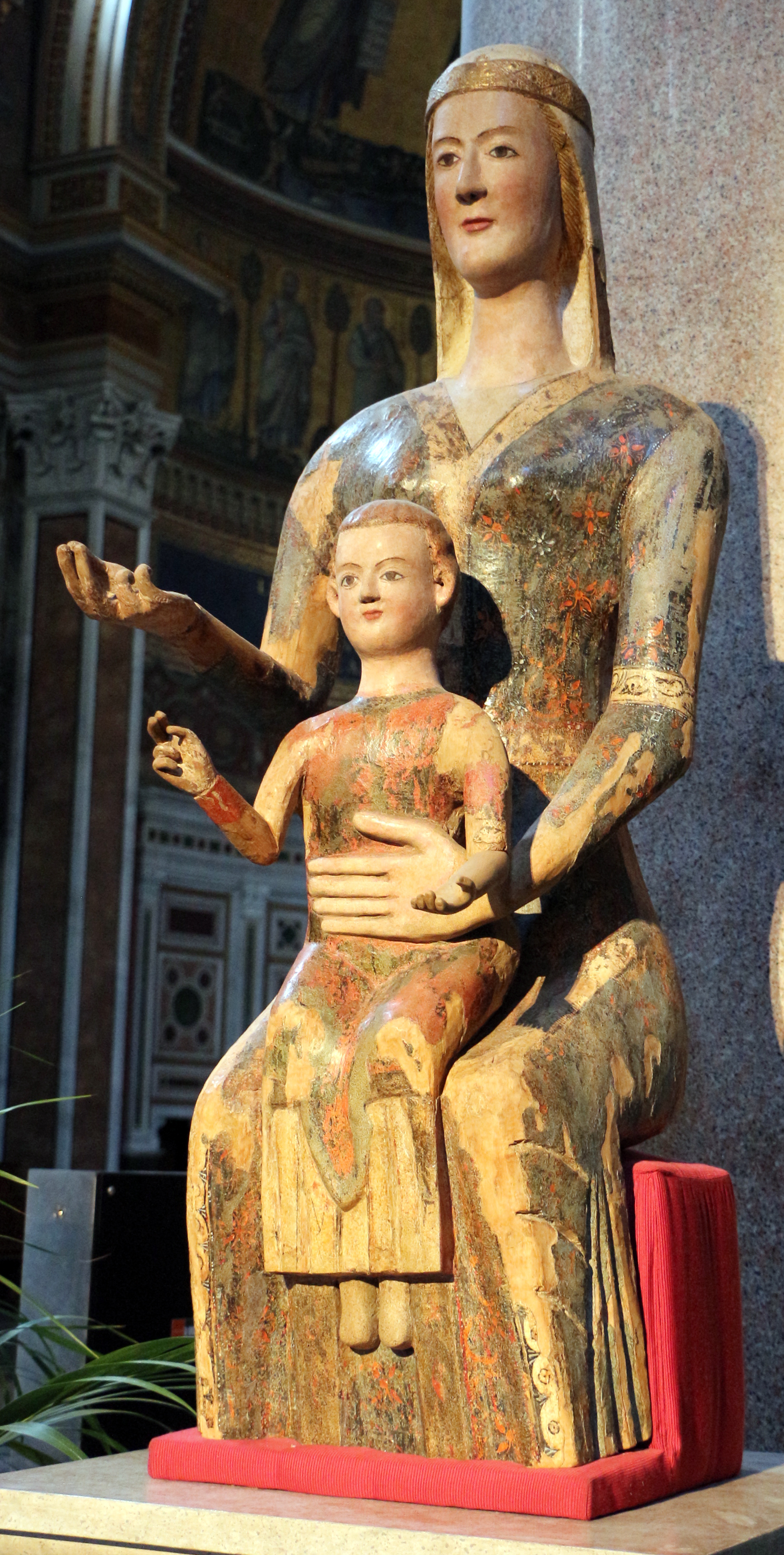 San Giovanni in Laterano (Rome) - Interior